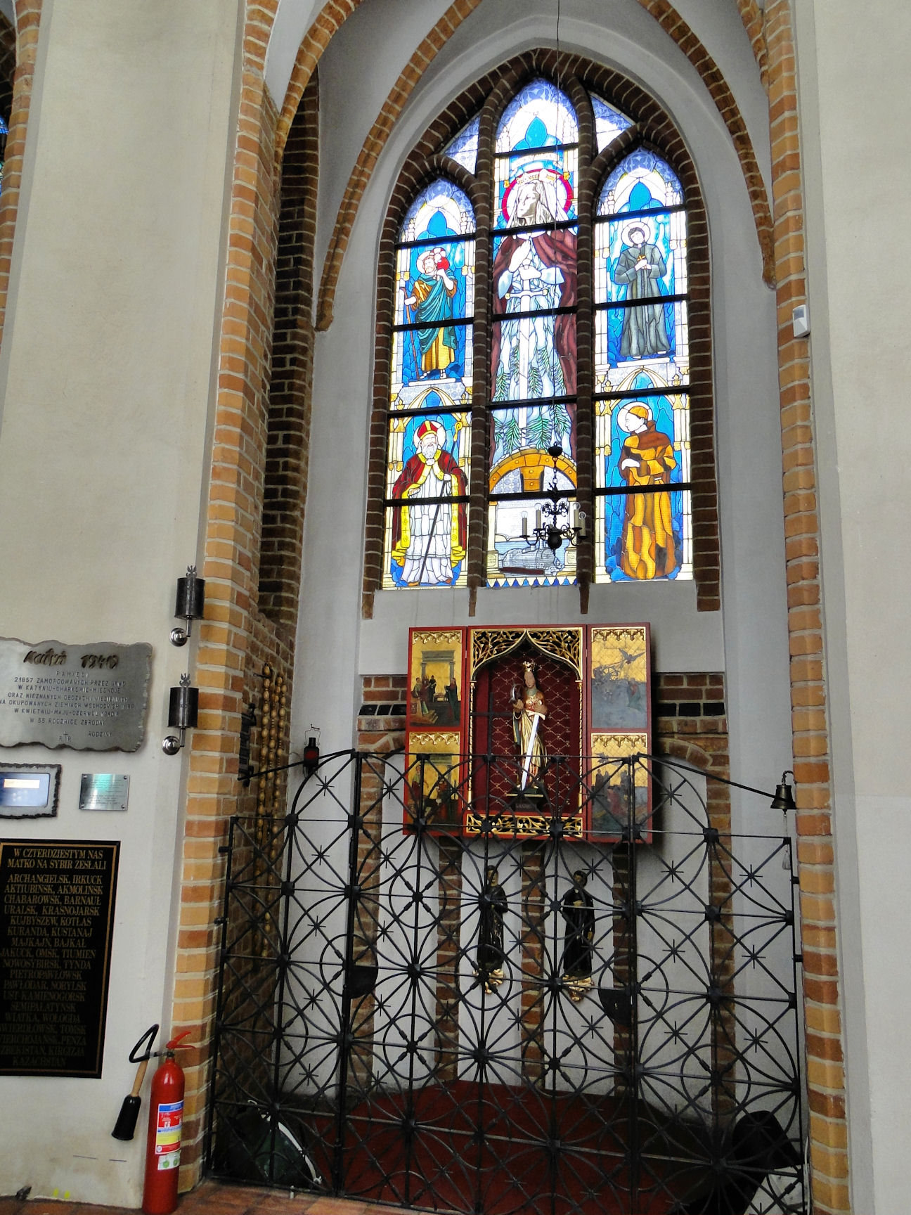 Interior of Szczecin Cathedral